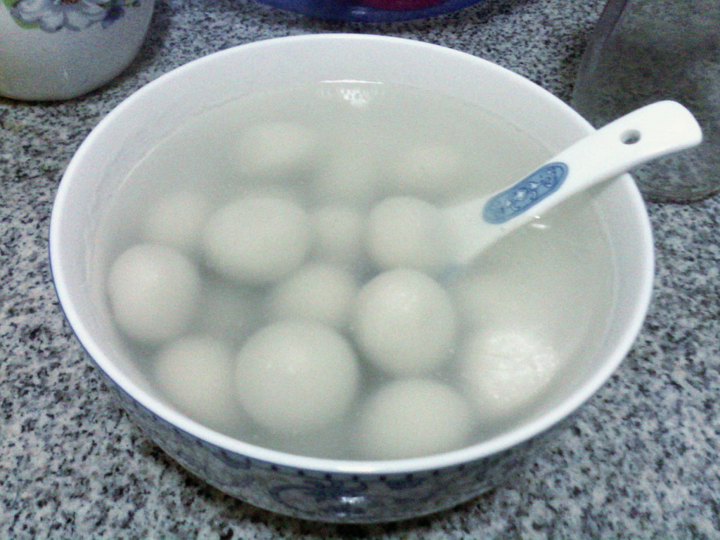 Chinese Tangyuan in a bowl. This type of Tangyuan has a black sesame filling and is quite traditional.